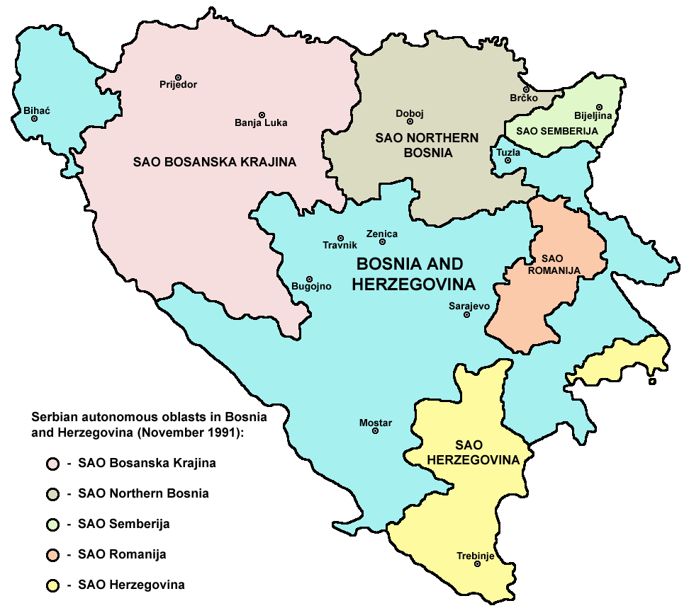 Serbian autonomous oblasts in Bosnia and Herzegovina (November 1991).